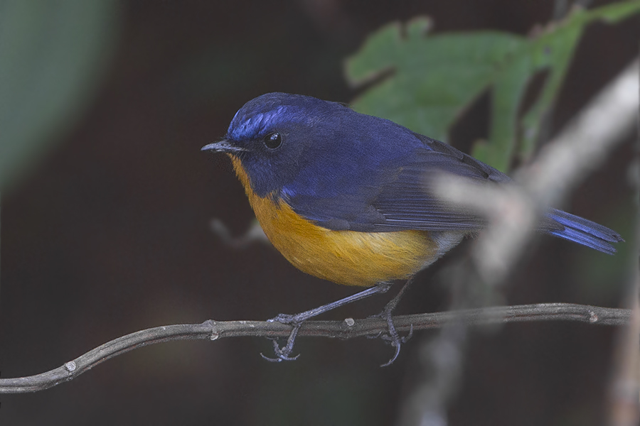 The species Rufous-breasted Bush Robin had been photographed from Pangolakha Wildlife Sanctuary in East Sikkim, India on 12.02.2016.